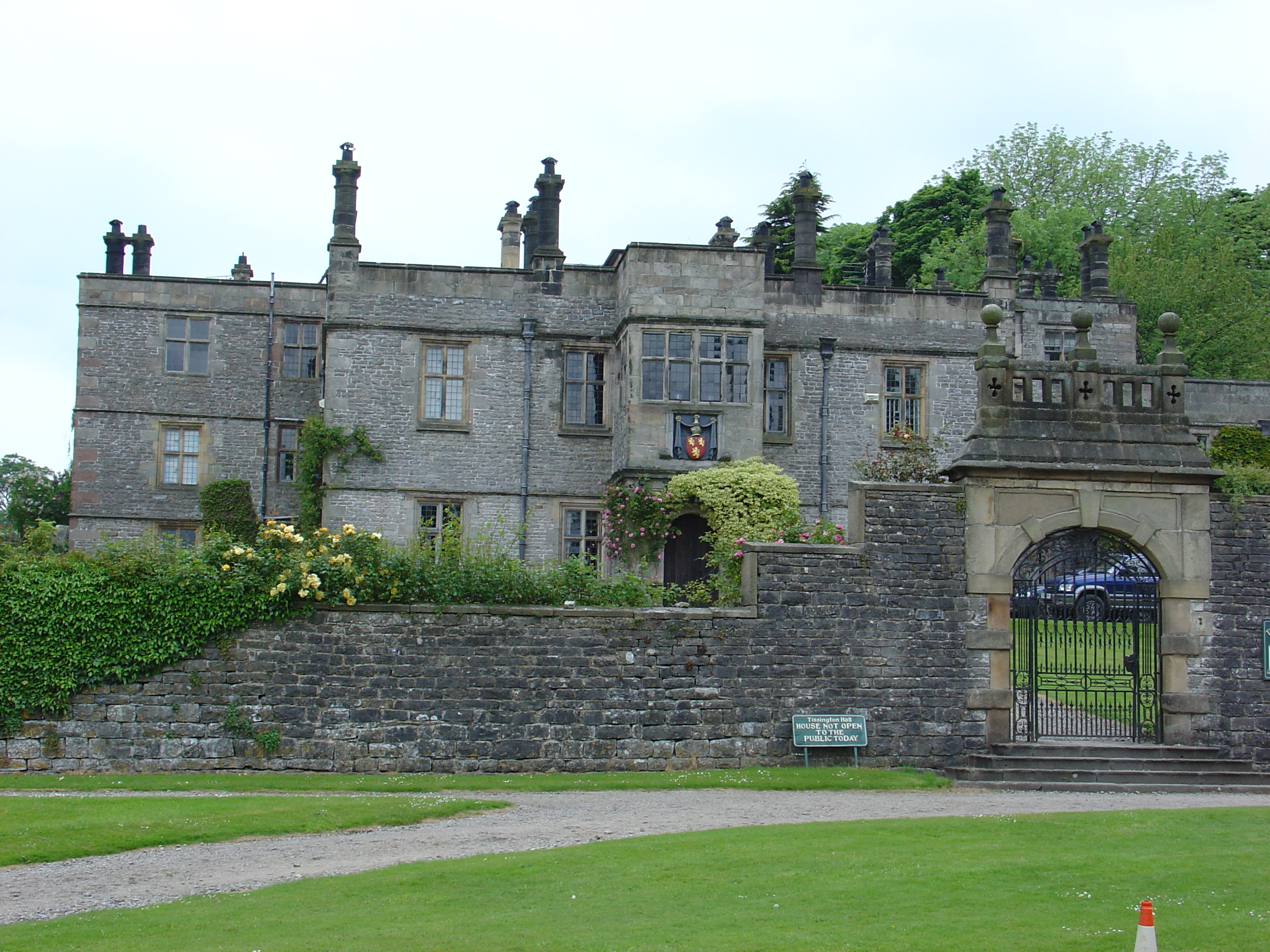 Tissington Hall in Derbyshire, EnglandDSC01804.JPG